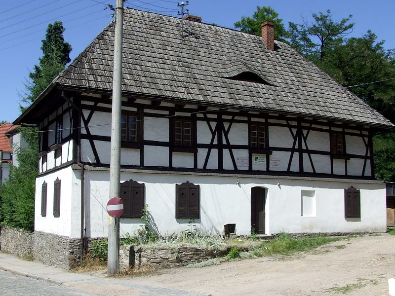 Paczków (Opole Voivodeship, Poland) - haus of executioner.